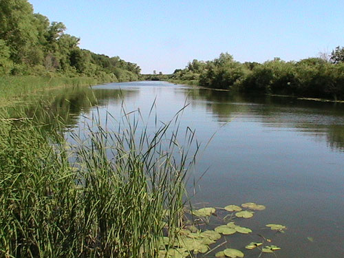 Bolshoy Irgiz River in Saratov Oblast.